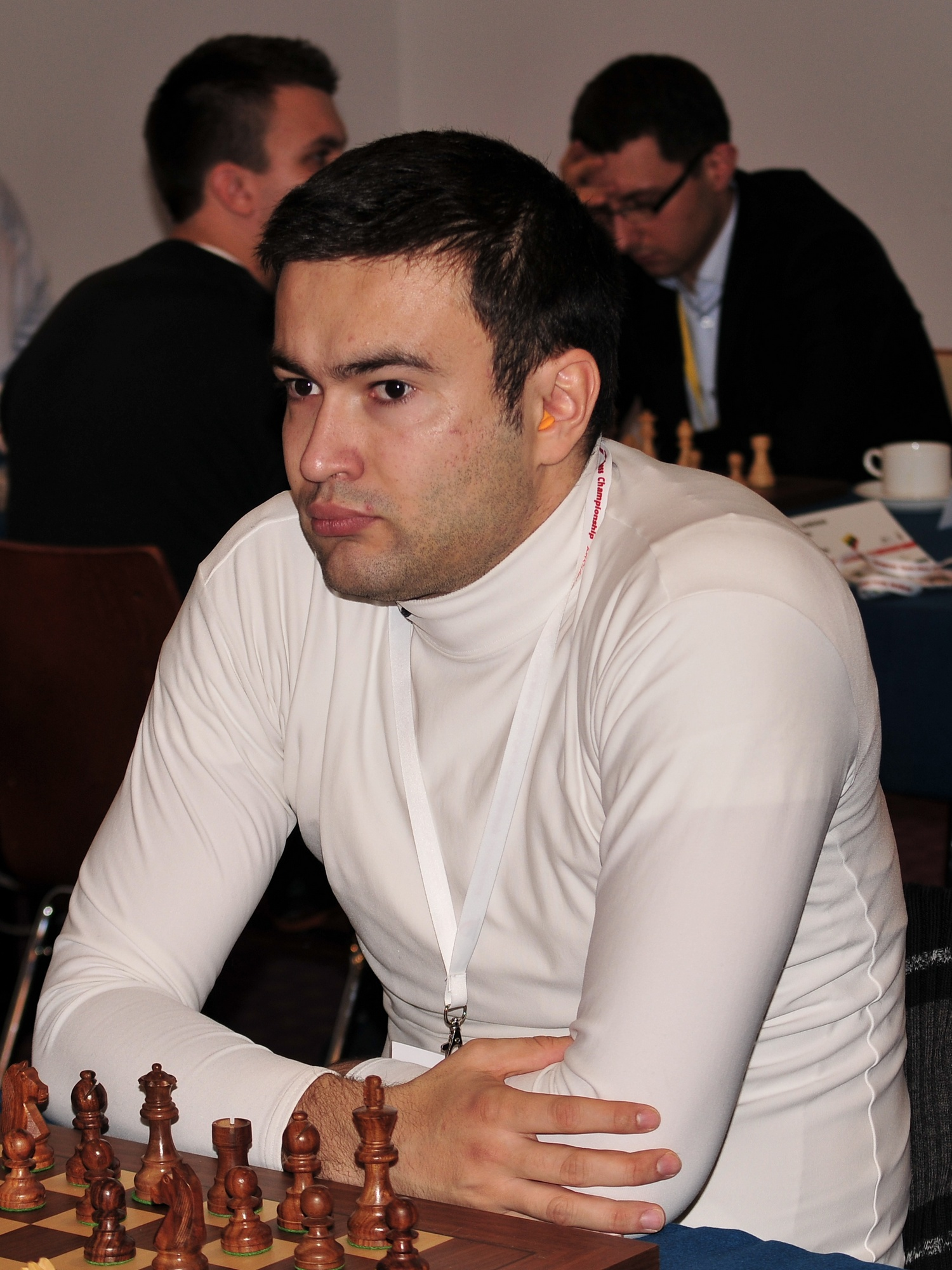 GM Davor Palo, European Chess Team Championship Warsaw 2013